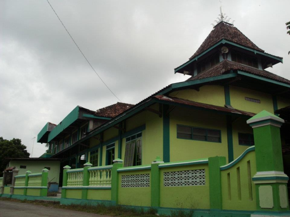 Masjid Al Muttaqin Margosari tampak Depan